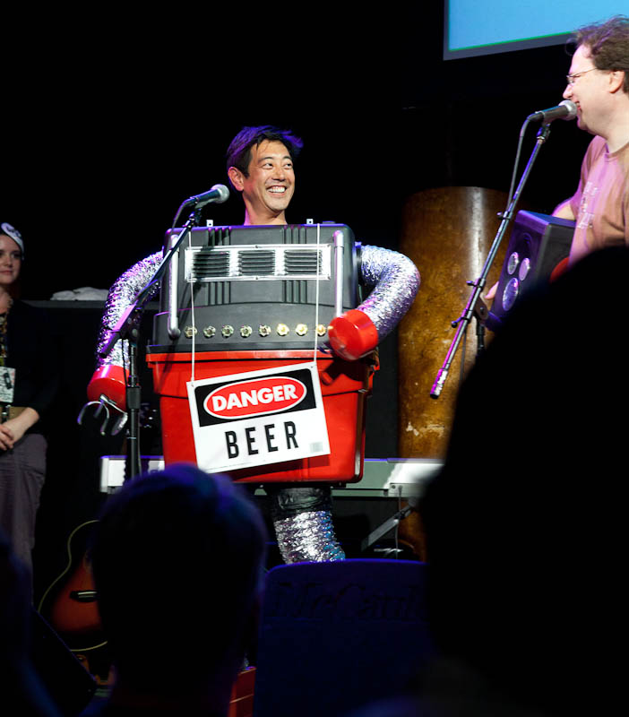 The W00tstock 2.5.1 variety show at the Great American Music Hall on September 17, 2010